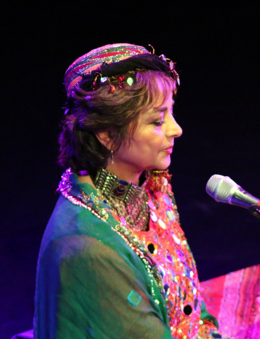 Maestra Sima Bina - Persian Folk Songs Singer, in a concert at Isala Theater, Capelle aan den Ijssel, Rotterdam (NL), 6th Dec. 2014. Photo: Persian Dutch Network